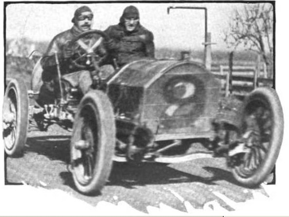 Charles Bigelow and his mechanic race in their Mercer car, probably February 22, 1911, in the Oakland Portola Road Race, Oakland, California.